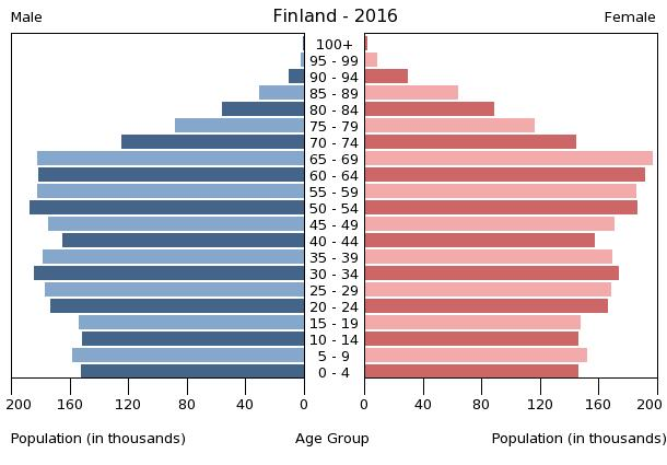 The population pyramid of Finland illustrates the age and sex structure of population and may provide insights about political and social stability, as well as economic development. The population is distributed along the horizontal axis, with males shown on the left and females on the right. The male and female populations are broken down into 5-year age groups represented as horizontal bars along the vertical axis, with the youngest age groups at the bottom and the oldest at the top. The shape of the population pyramid gradually evolves over time based on fertility, mortality, and international migration trends.